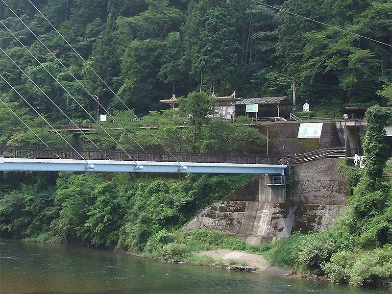 Nishikigawa railway Nishikigawa-Seiryu line. Naguwa station.